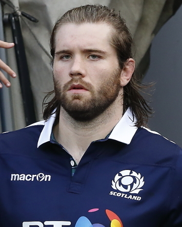 2017.06.17.14.59.25-Scots running on The 2017 mid-year rugby union international, 17 June 2017, Australia vs Scotland at Allianz Stadium, Sydney